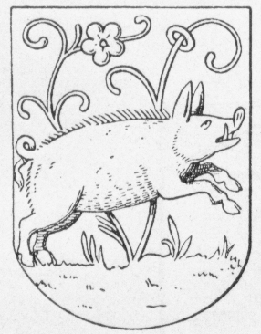 Coat of arms of Galten Herred (Hundred), a former administrative subdivision of Denmark, 1610 version. Illustration from the article Om danske By- og Herredsvaaben written by Anders Thiset and published in Tidsskrift for Kunstindustri 1893-1894.